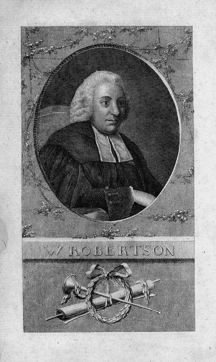 William Robertson (1721-1793), from: Robertson, Geschichte von Amerika. Aus dem Englischen übersetzt von Johann Friedrich Schiller, Leipzig 1777.